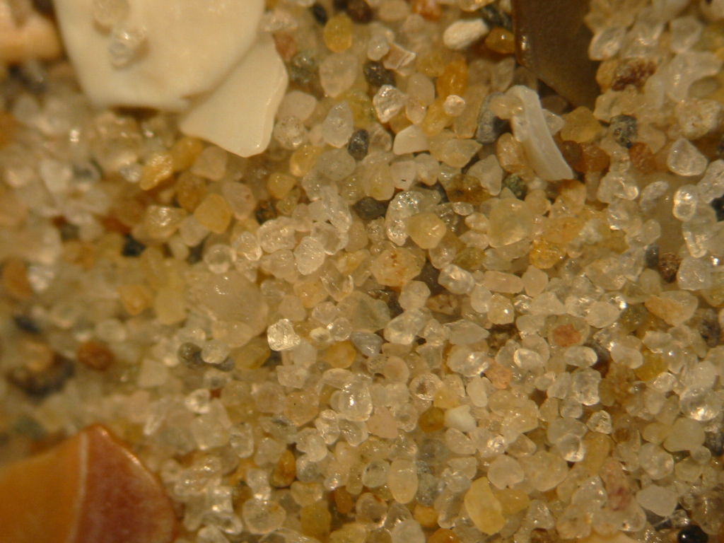 Sand from Wijk aan Zee, the Netherlands. Made with Canon A40 PowerShot digital camera and Novex AP8 microscope, by Renée Janssen. Magnification: The grains are about 0.2-0.5 mm in size.